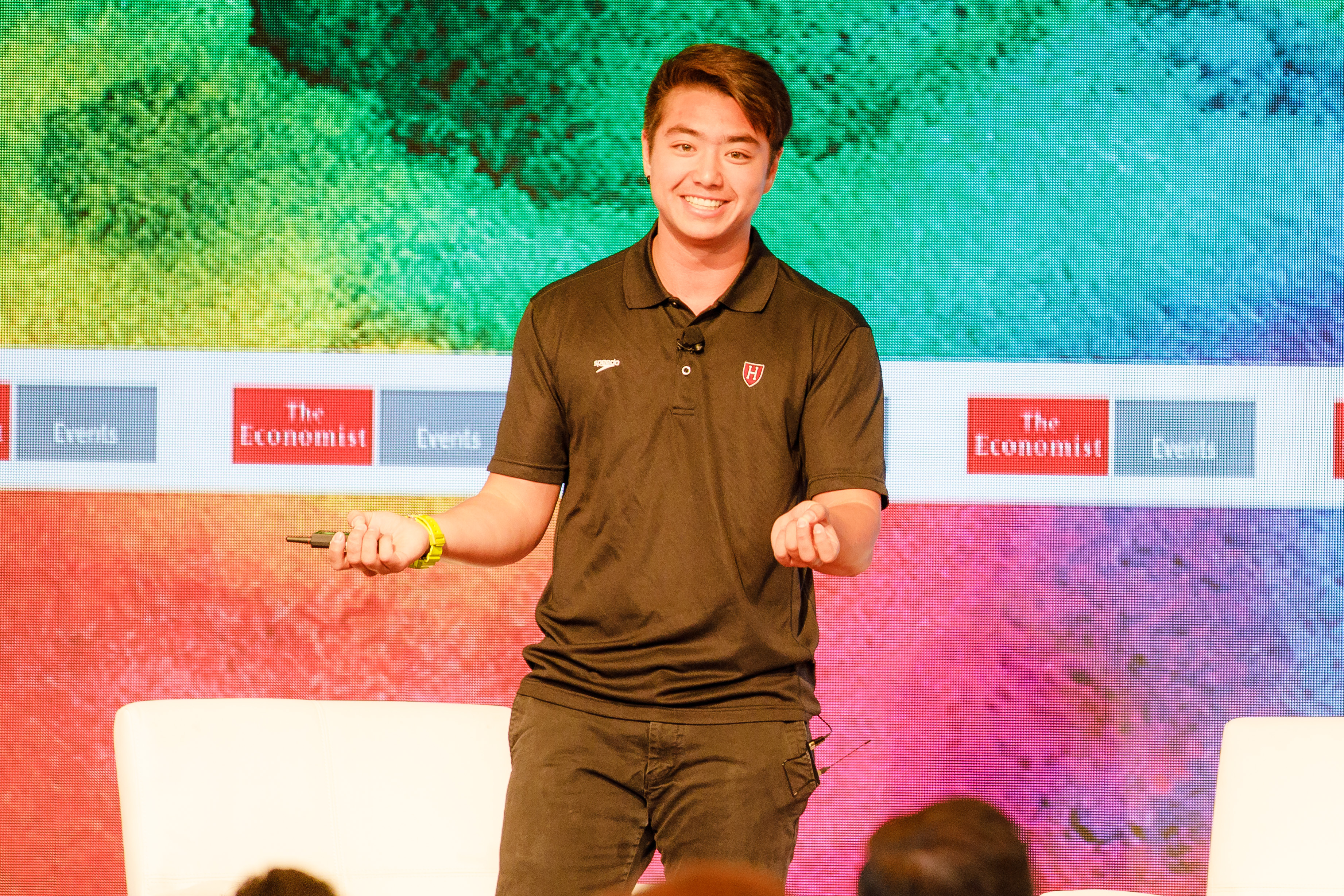 Schuyler Bailar speaking at 2017 Pride and Prejudice Conference